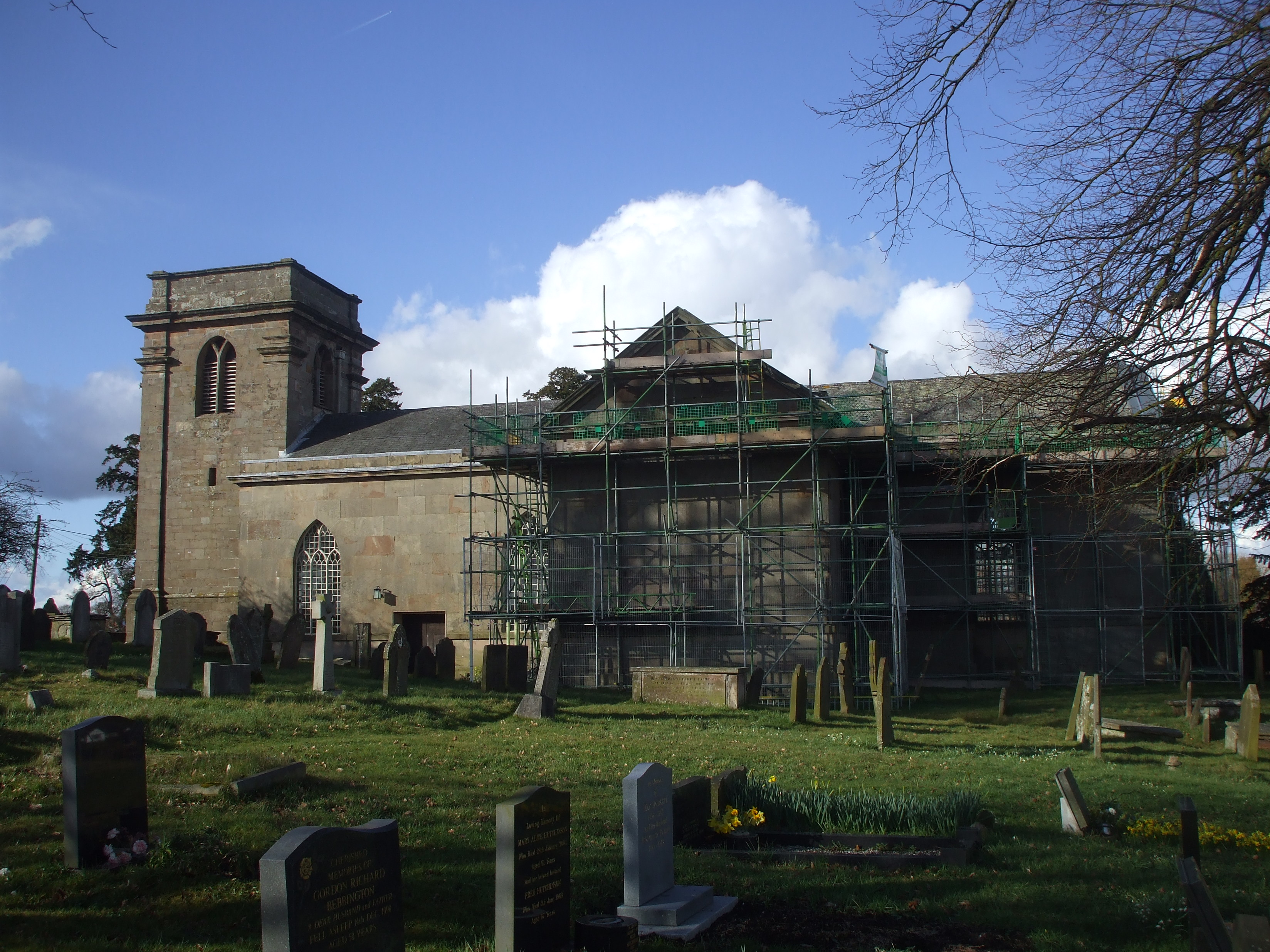 St Peter's parish church, Adderley, Shropshire, England, seen from the south with scaffolding around the chancel and south transept